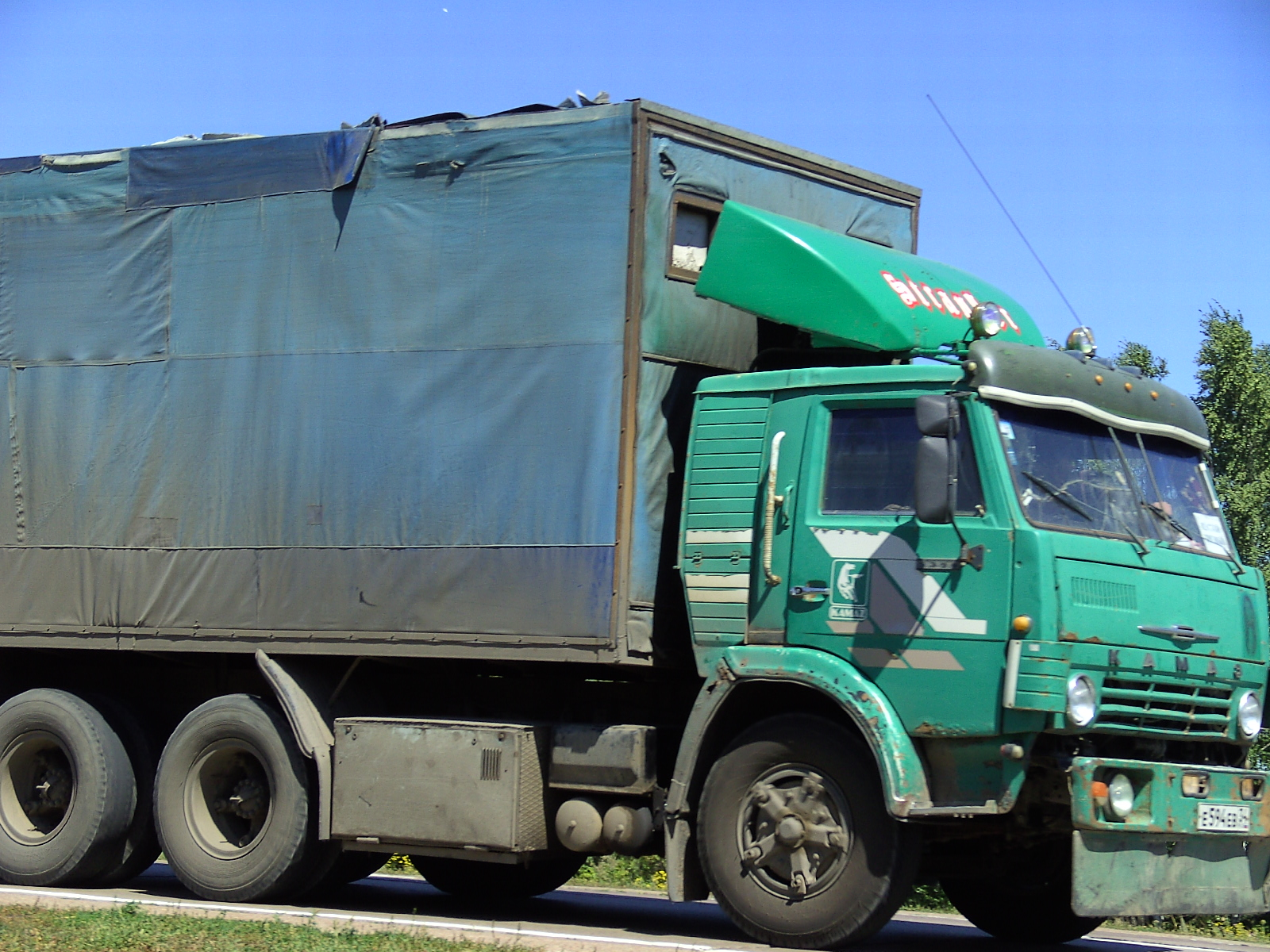 Kamaz 5320 in Russia.